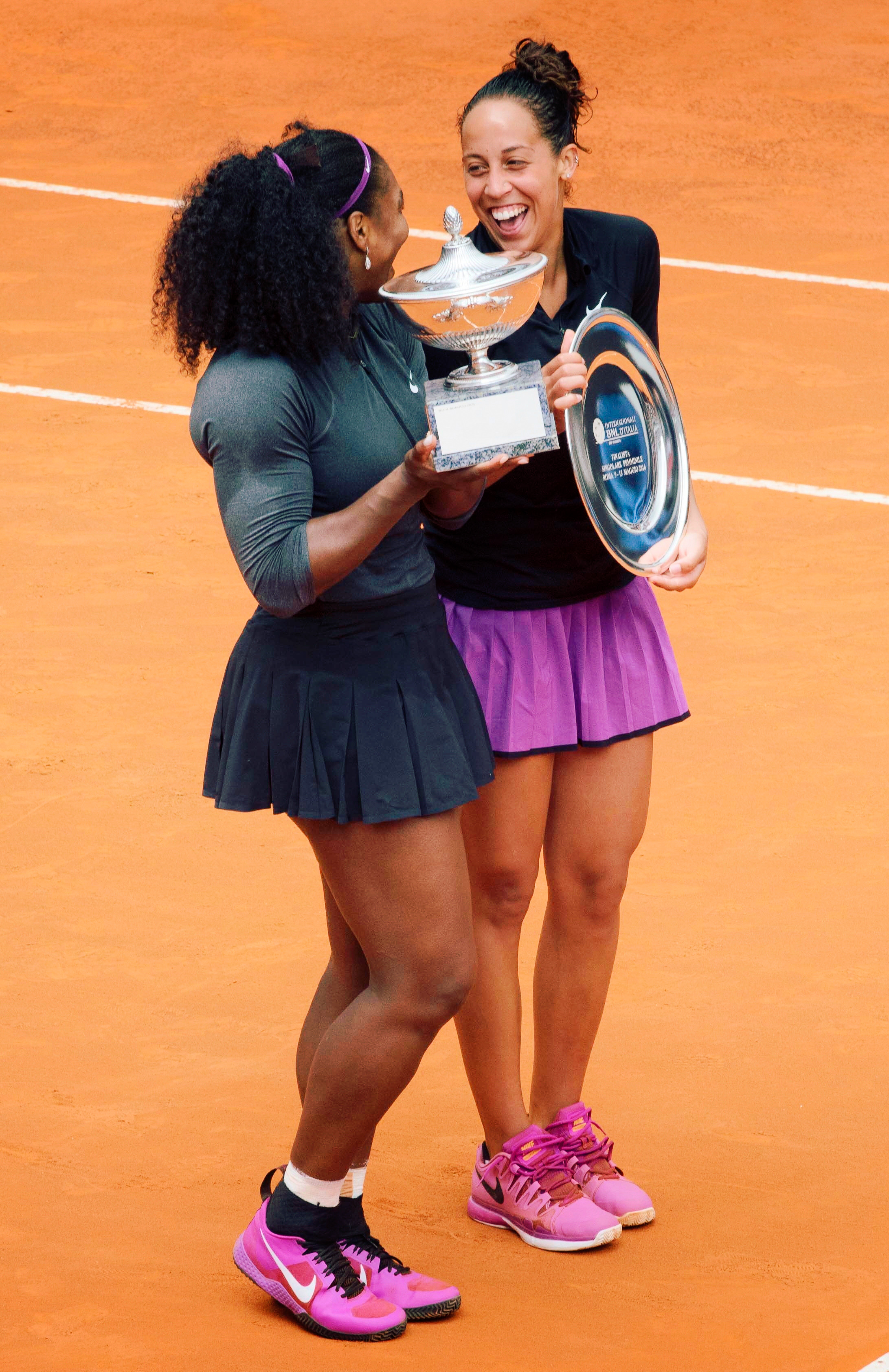 Singles champion Serena Williams (left) and Runner-up Madison Keys hold the trophies at the Internazionali BNL d'Italia 2016. Rome.